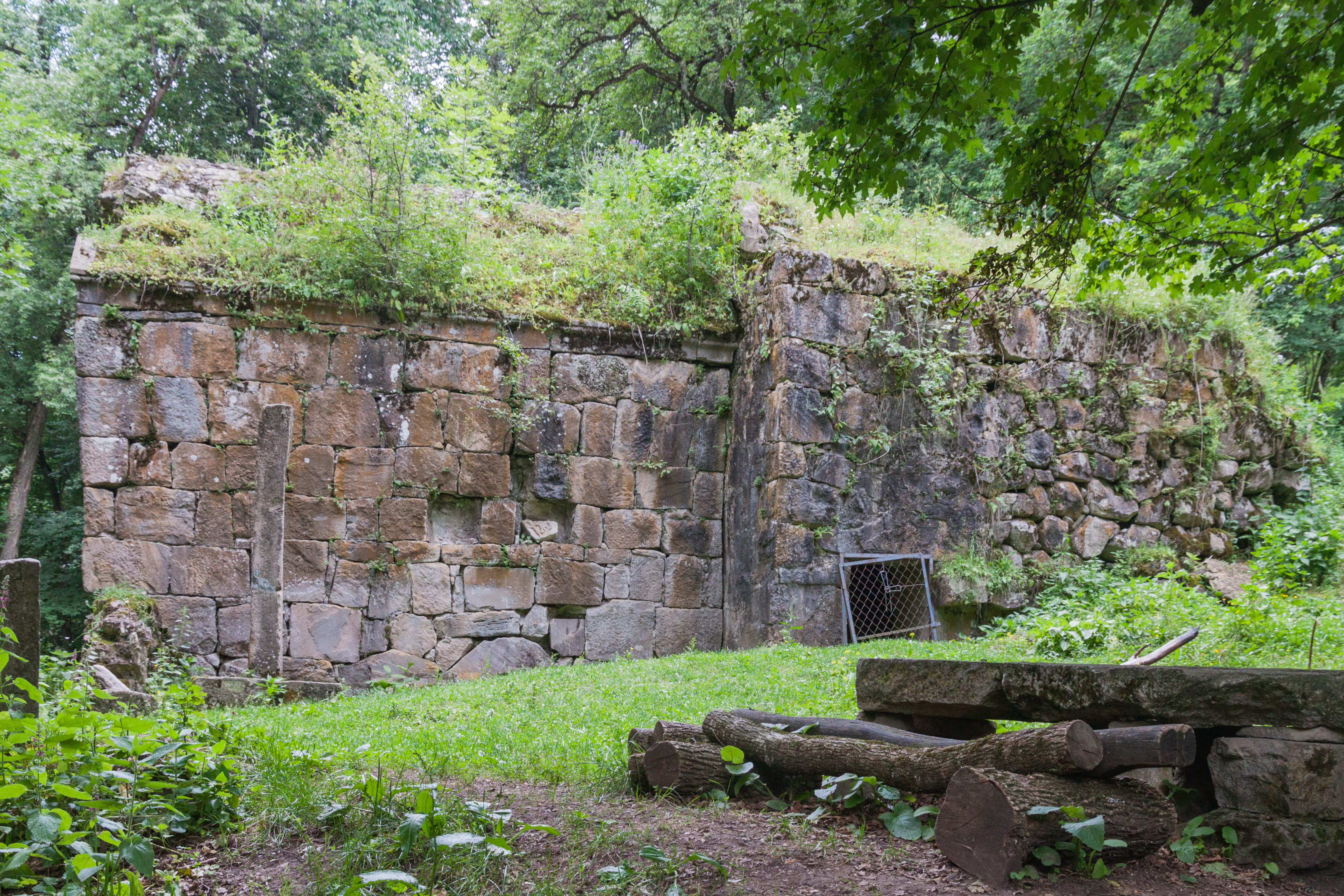 Matosavank monastery. Dilijan National Park, Tavush Province, Armenia.